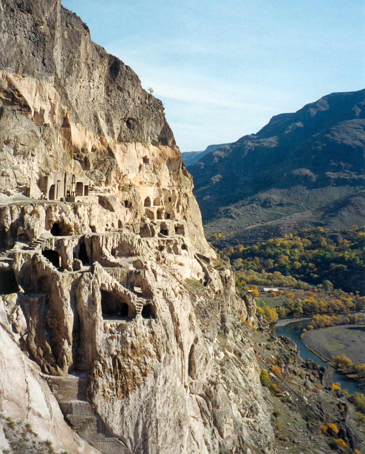 View of the cave city of Vardzia, Georgia.